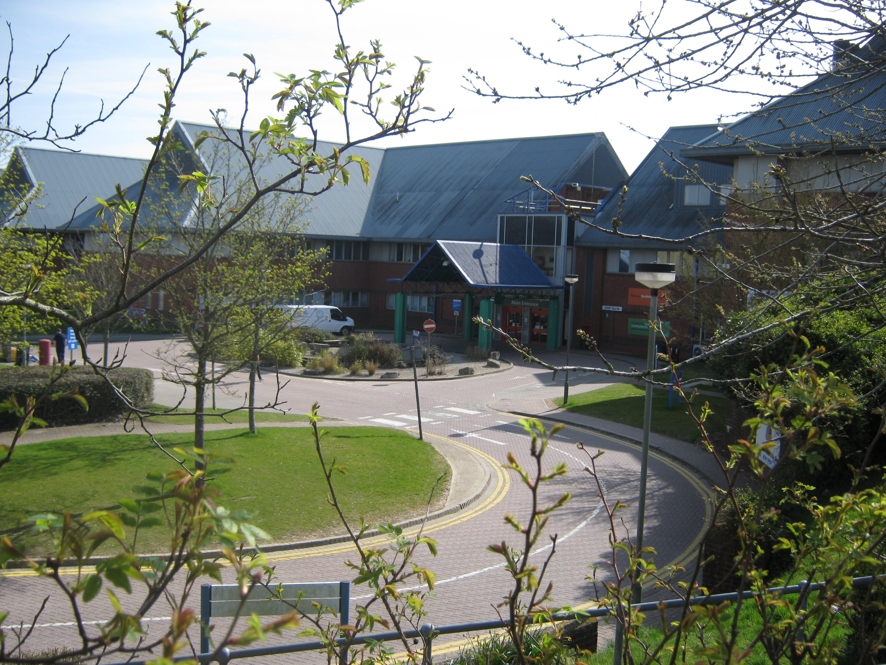 A view of the main entrance of Salisbury District Hospital from the south west